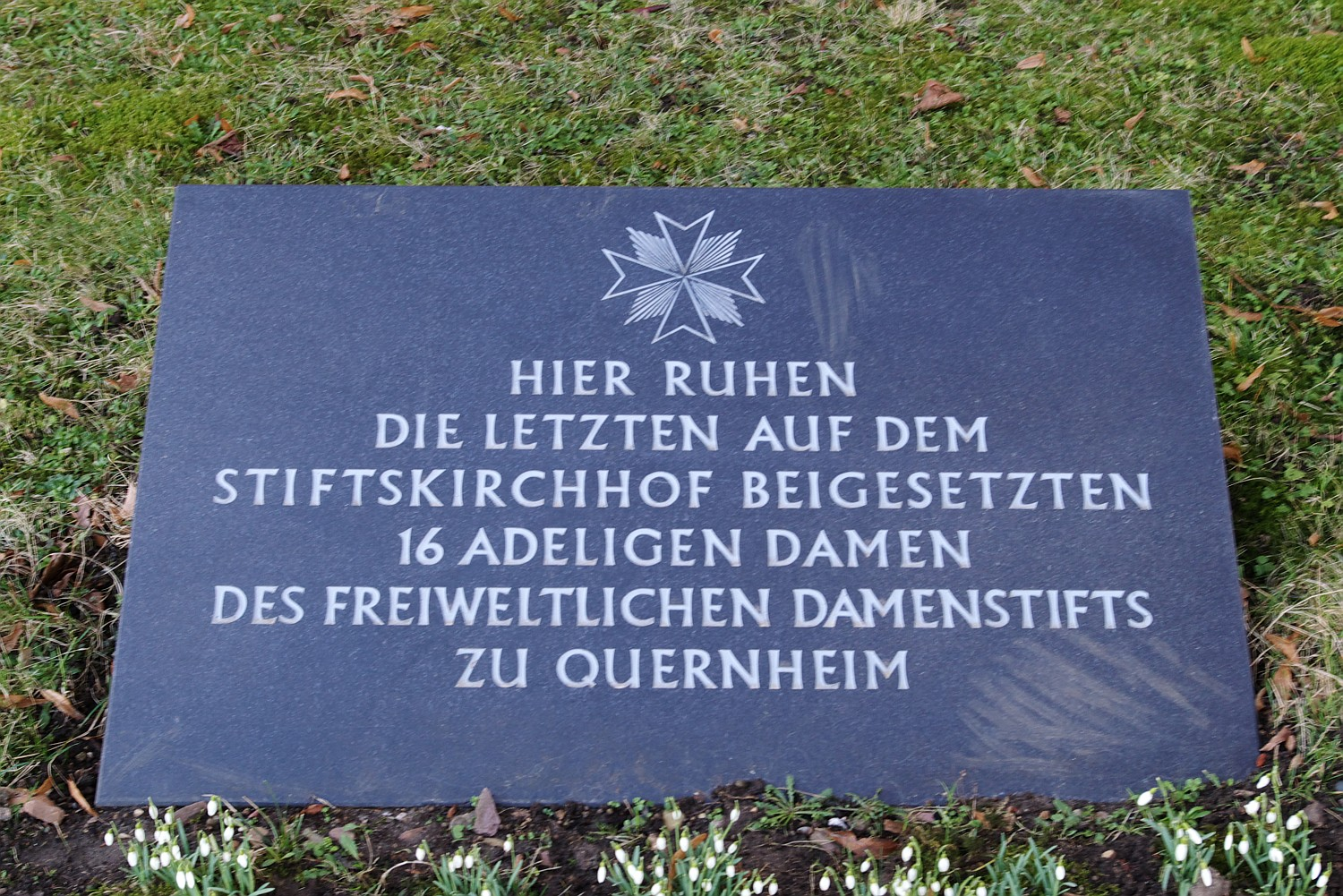 Memorial commemorating former monastry Stift Quernheim in town of Kirchlengern, District of Herford, North Rhine-Westphalia, Germany.